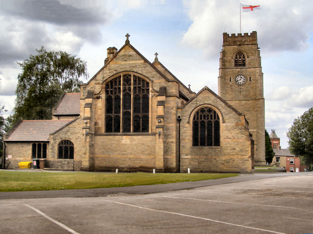 Photograph of St Michael's Church, Middleton